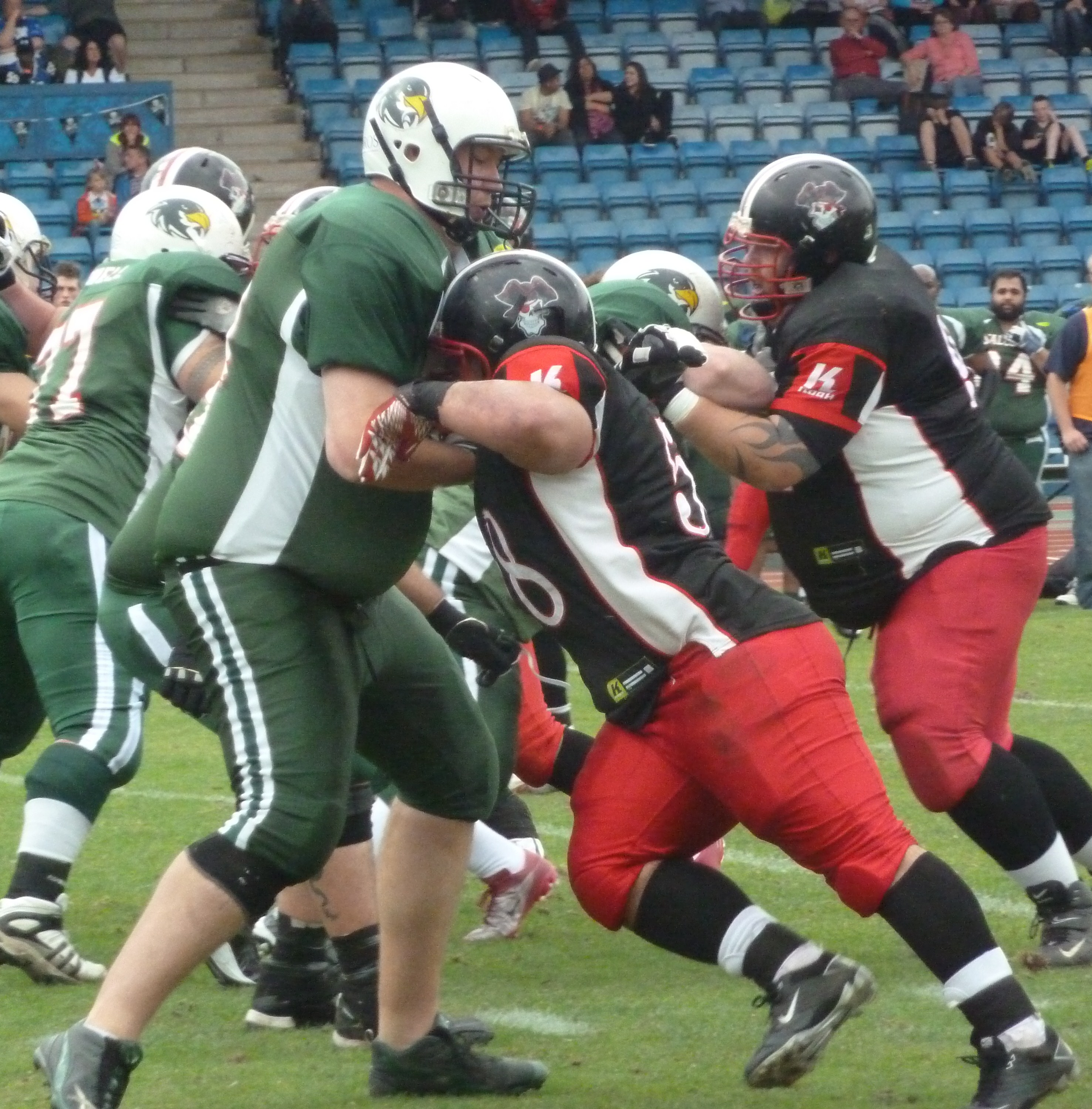 Pirate vs Leicester - Britbowl XXV